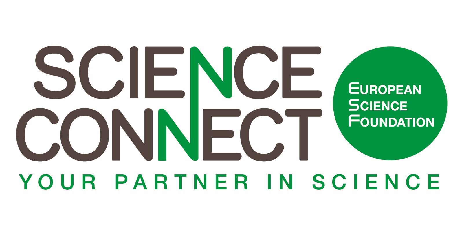 2017 logo of the European Science Foundation